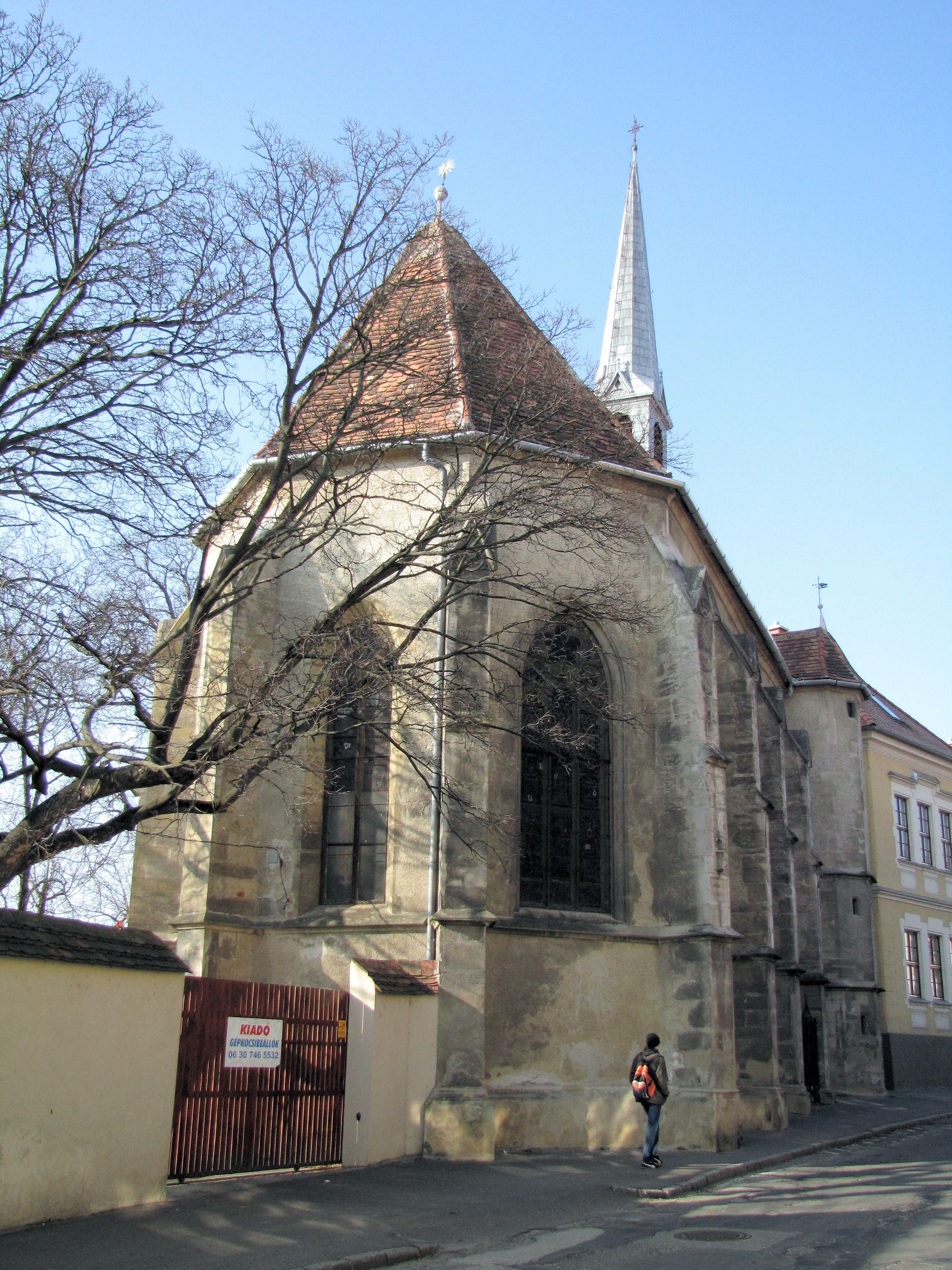 Church of St John, Sopron.